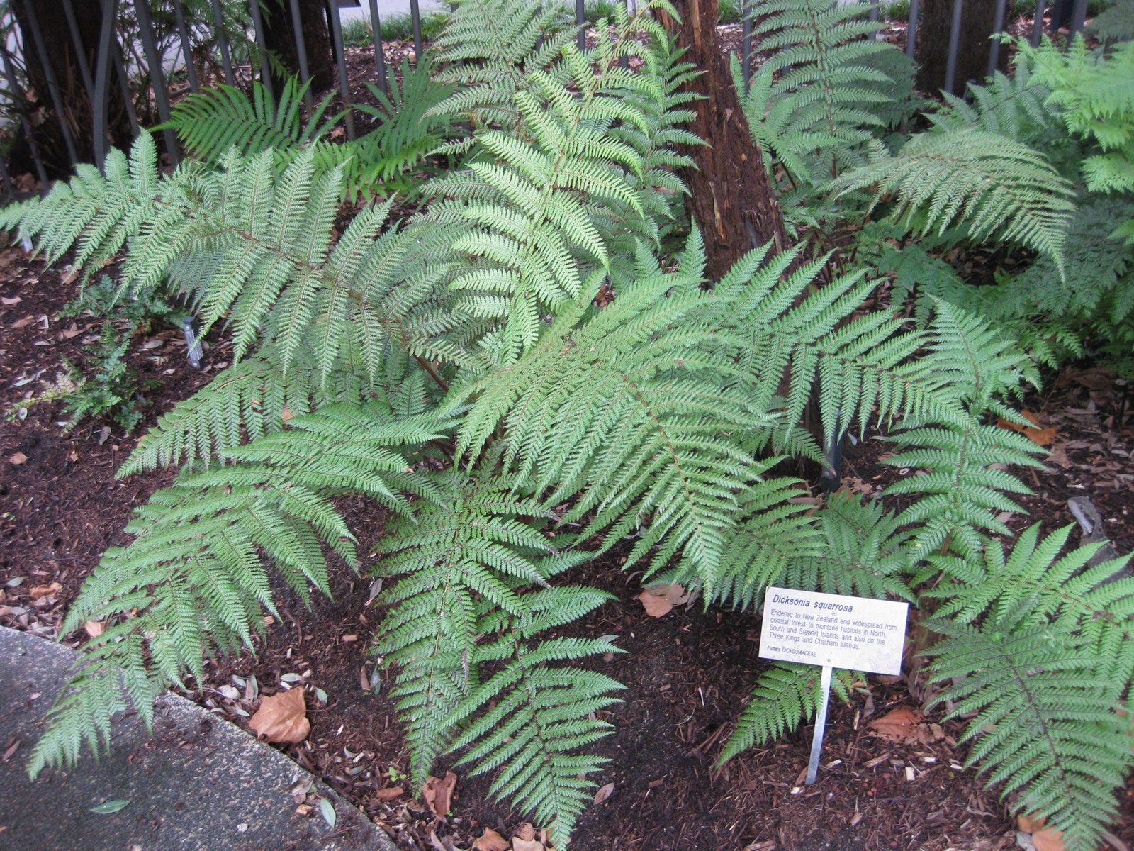 Photographed at the Royal Botanic Gardens Sydney (Australia) in January